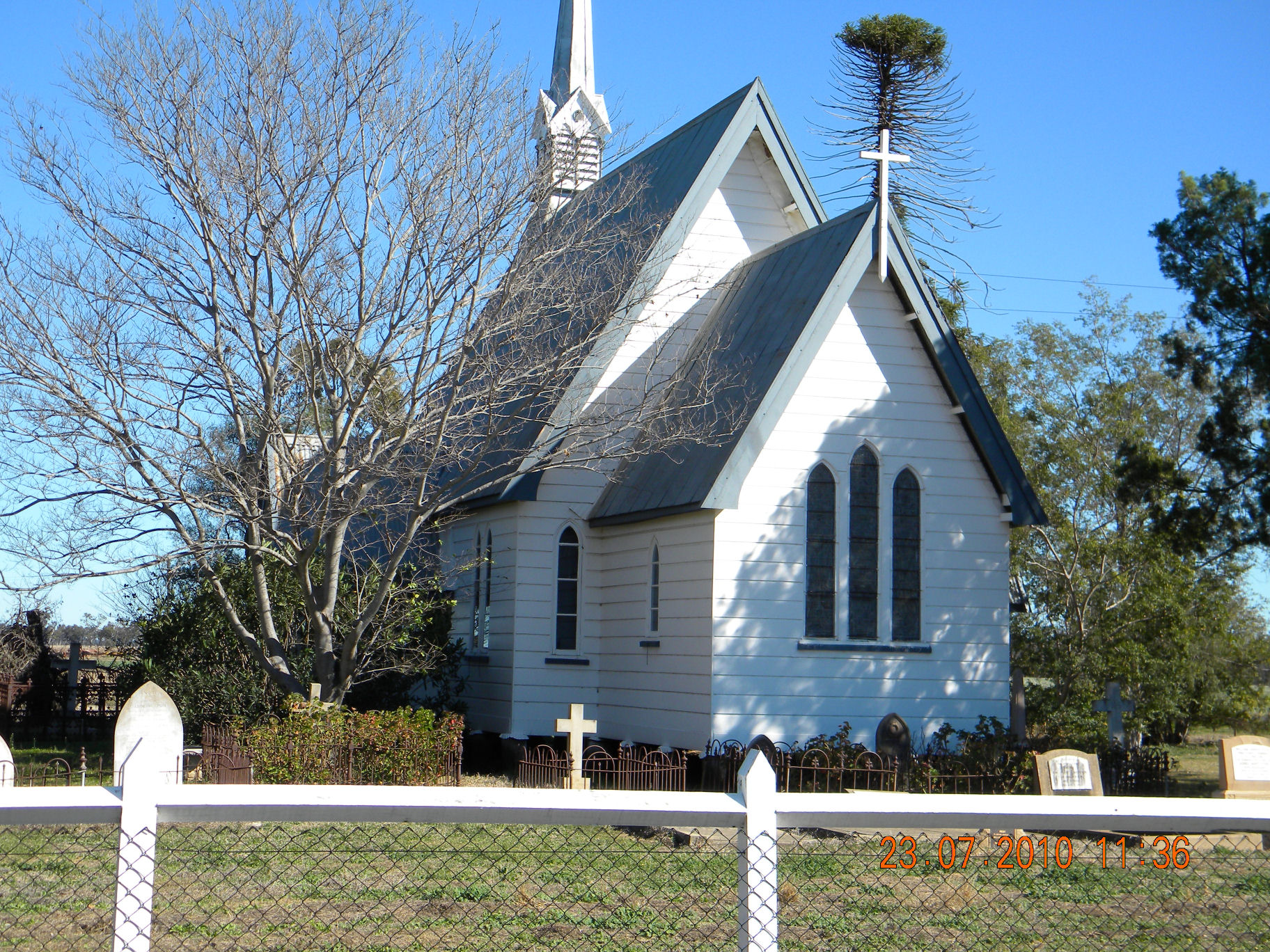 Church along Gore Highway